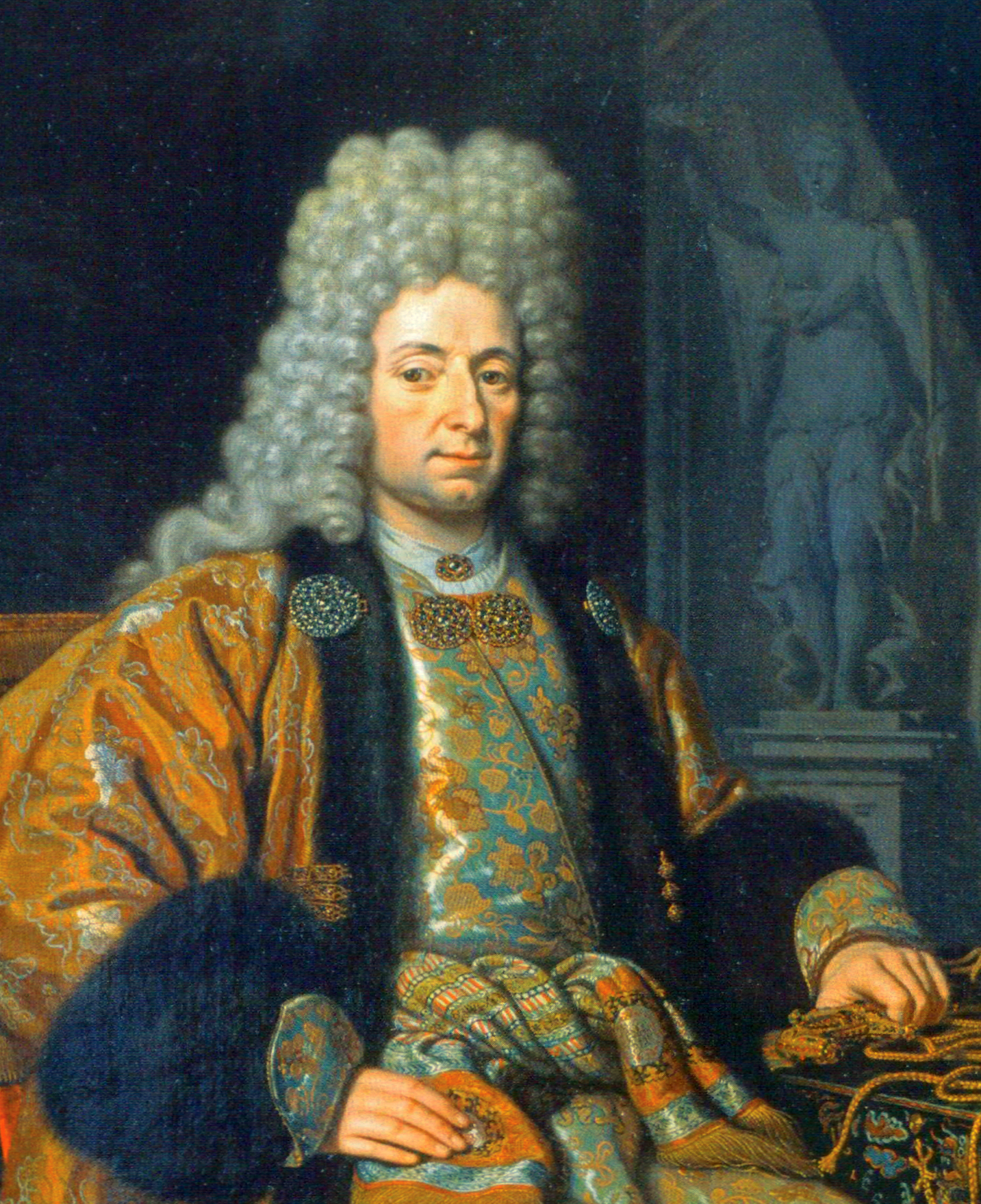 Portrait of François Lefort in 1698 painted in Holland during Grand Embassy of Peter the Greatdetail